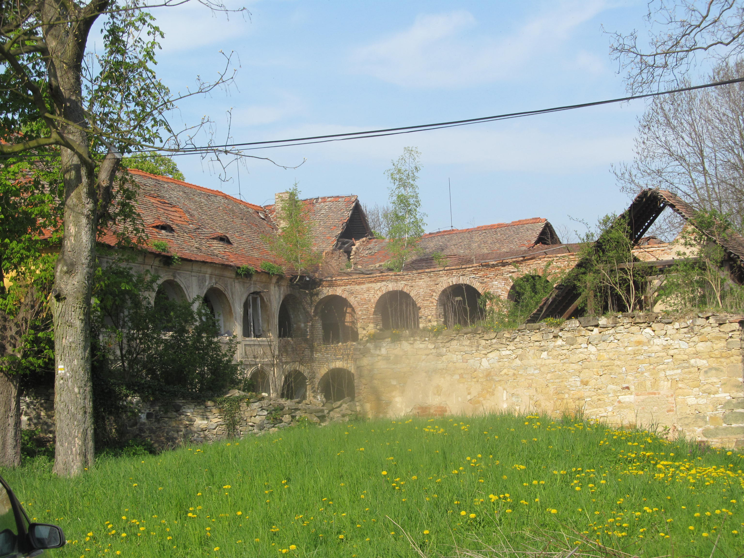 Courtyard of Boreč castle